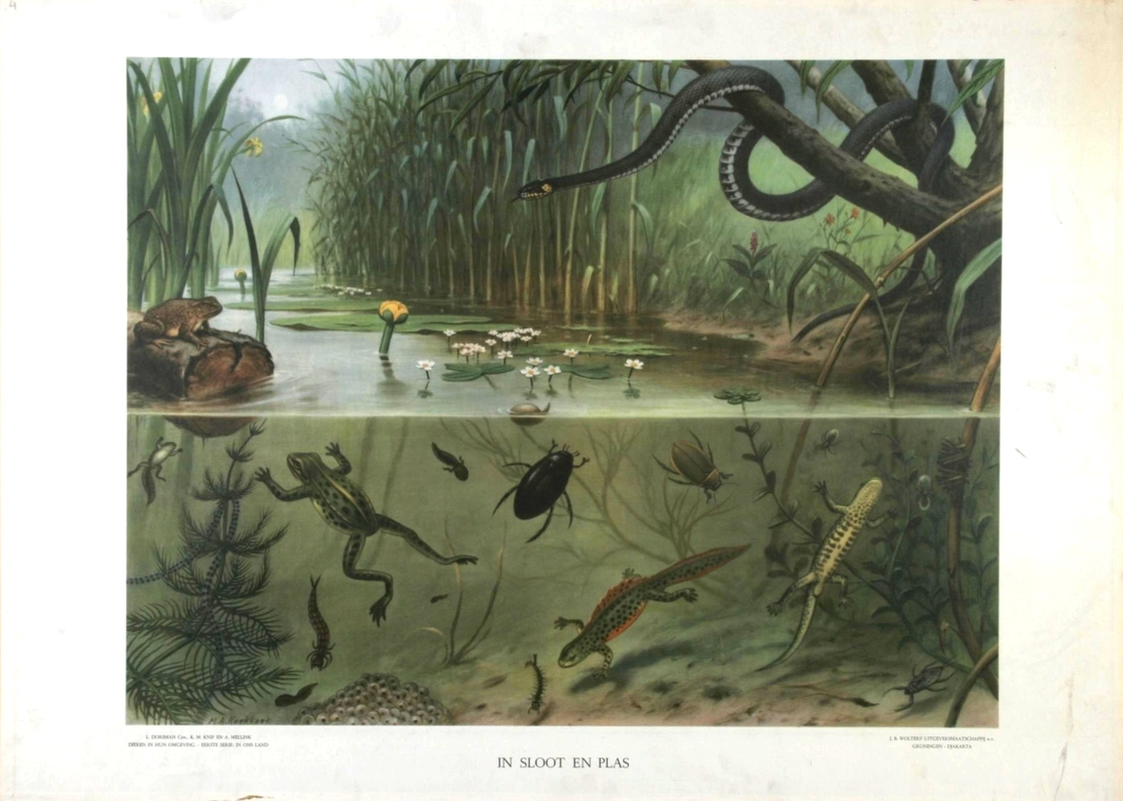 Educational wall pictures formerly used in primary schools in the Netherlands. Here: "In sloot en plas" (In ditches and pools) from the series "Dieren en hun omgeving" (Animals and their habitat), first published by J B Wolters in Groningen (1910-1920?). Original watercolour by Marinus Adrianus Koekkoek (1873-1944). Collection Centre Céramique, Maastricht, the Netherlands.